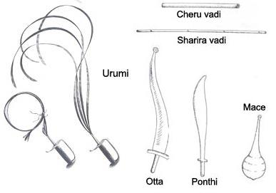 Kalaripayattu weapons - combined from two pictures.